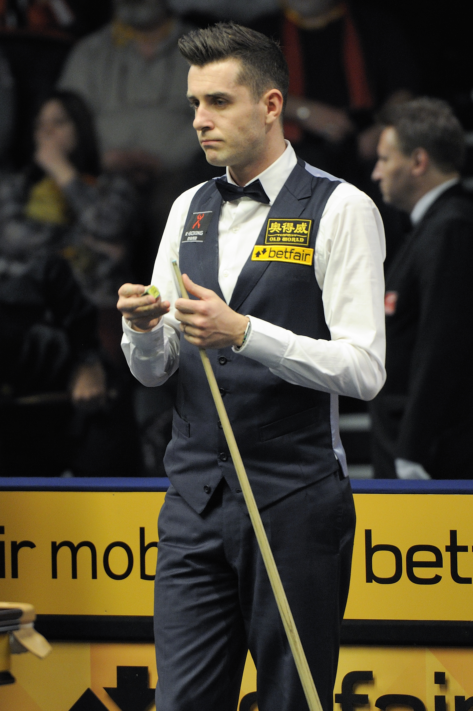 Picture taken in Berlin during the Snooker German Masters in 2013. Mark Selby.